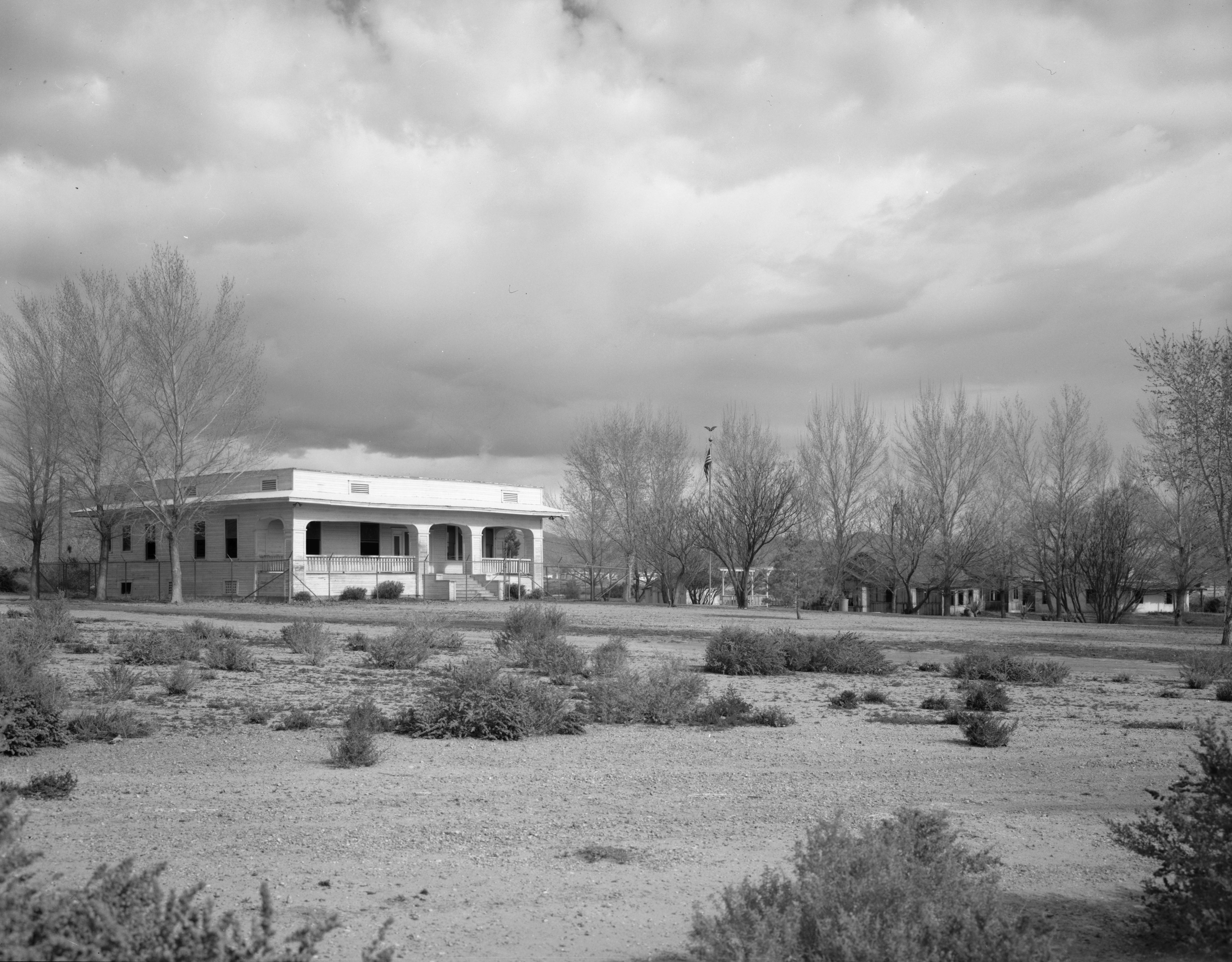 Adobe house at the Kyle Ranch, located northeast of the intersection of Commerce Street and Carey Avenue in North Las Vegas, Nevada, United States. Built in 1855, the ranch is listed on the National Register of Historic Places.